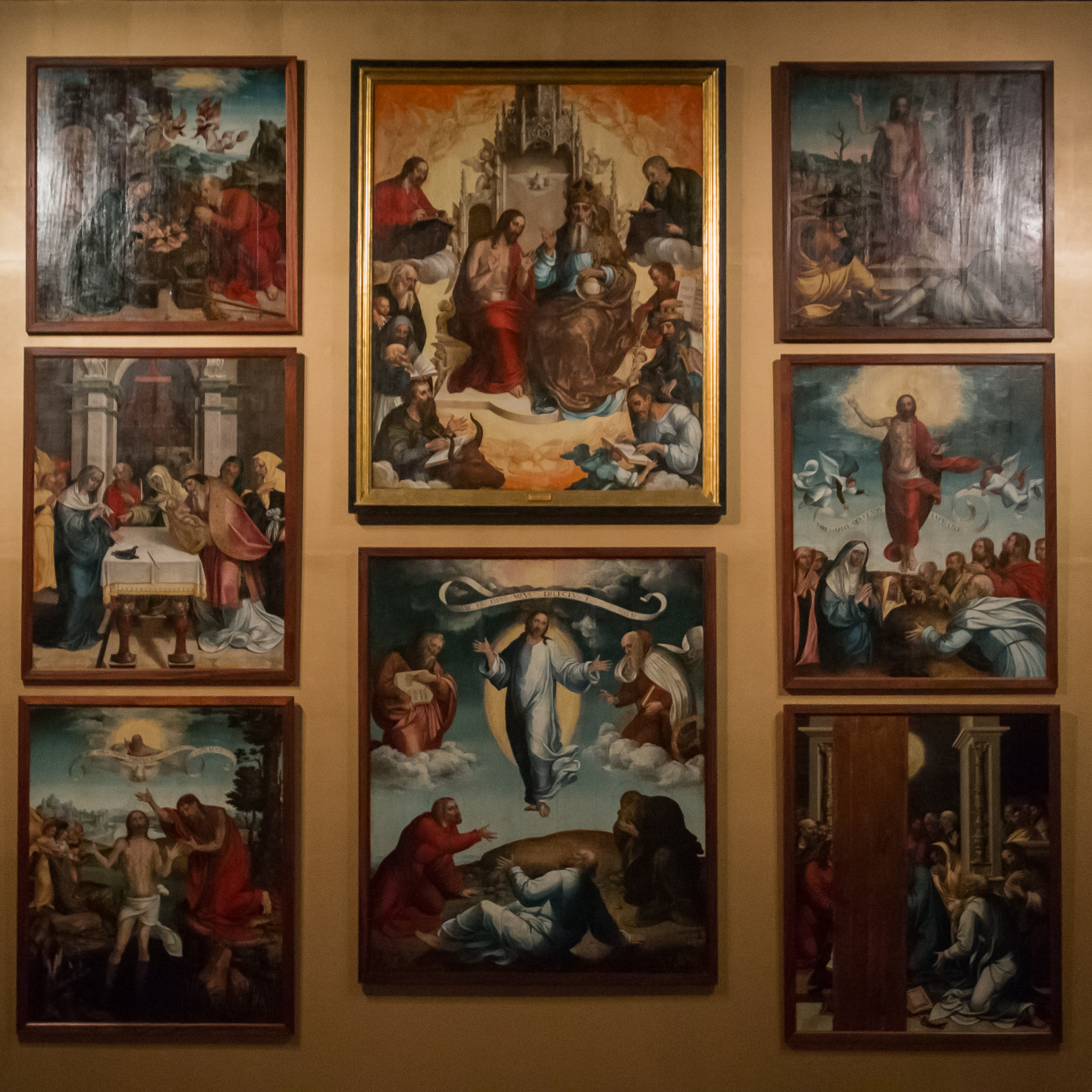 Polyptique whose panels represent: in the left: The Nativity, The Presentation in the Temple, The Baptism of Jesus. In the center; The Holy Trinity and the Transfiguration. in the right: The Resurrection, The Ascension, Pentecost.